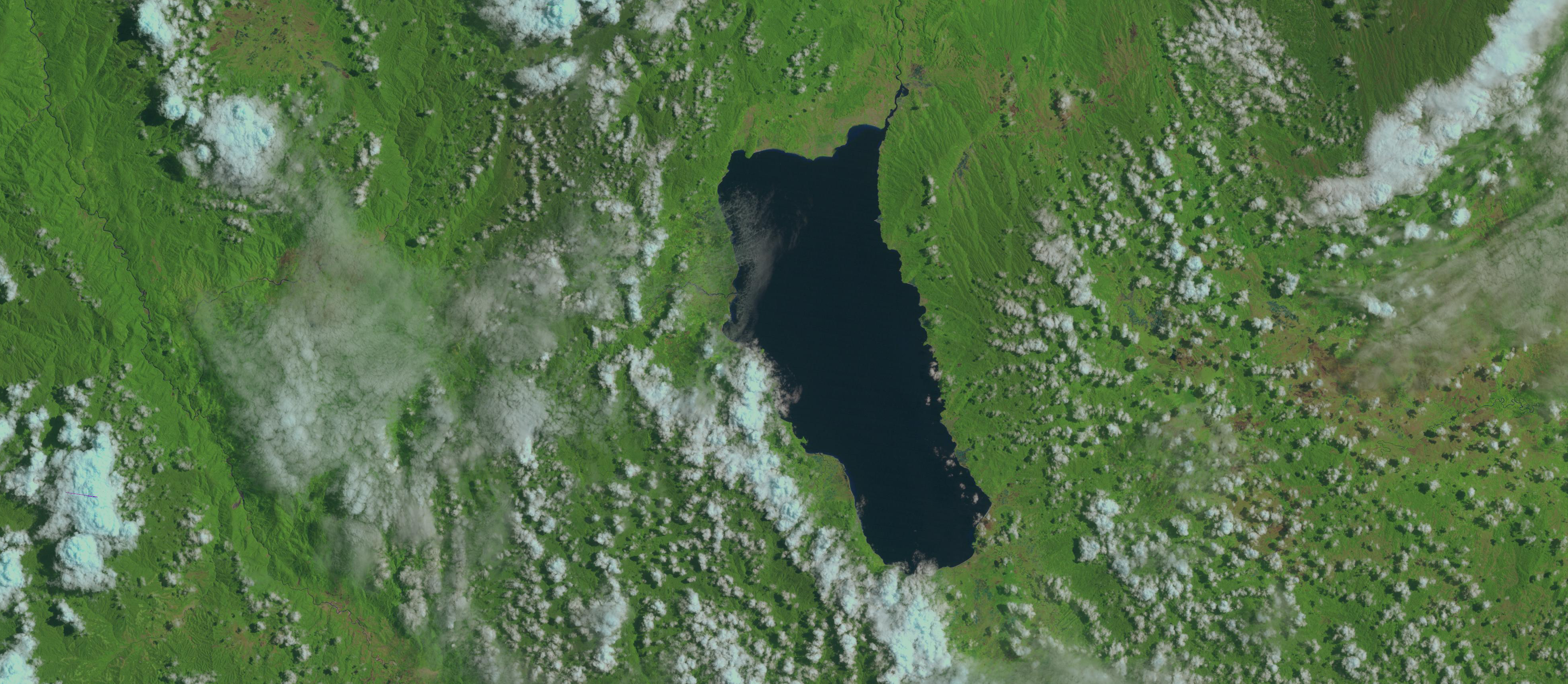 This image (Landsat 4-5 TM C1 Level-2) shows Poso Regency, which is located in Central Sulawesi province, Indonesia.